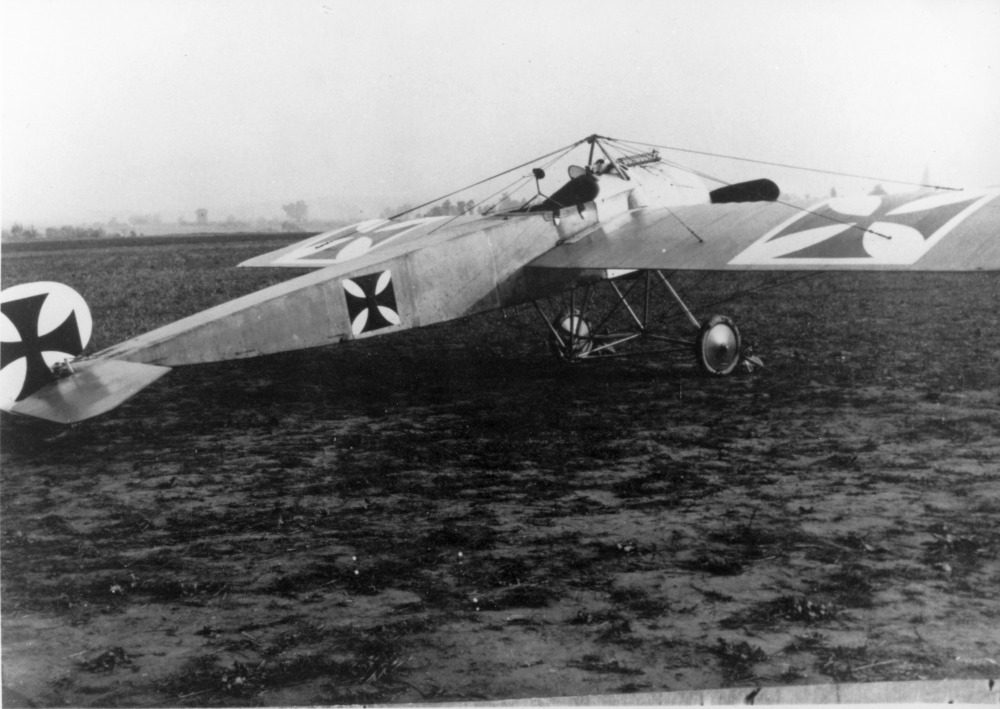 PictionID:43637845 - Title:Fokker E I - Catalog:16_004555 - Filename:16_004555.TIF - - - - - - - Image from the Ray Wagner Collection. Ray Wagner was Archivist at the San Diego Air and Space Museum for several years and is an author of several books on aviation --- ---Please Tag these images so that the information can be permanently stored with the digital file.---Repository: San Diego Air and Space Museum